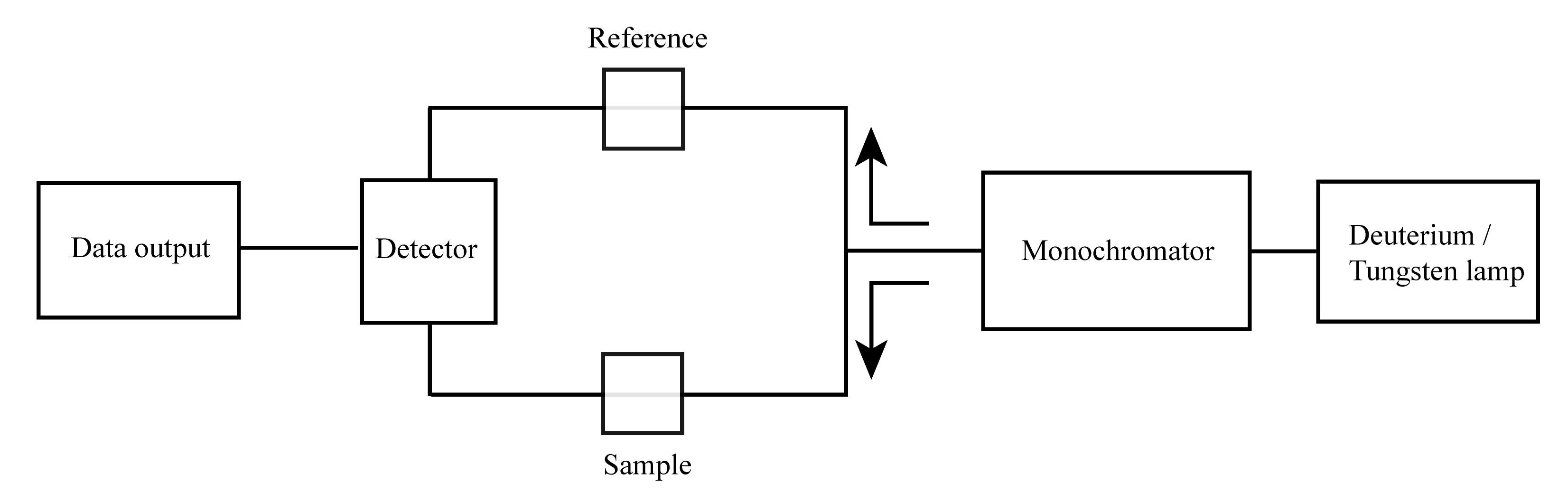 Simplified diagram of a UV-visible spectrometer